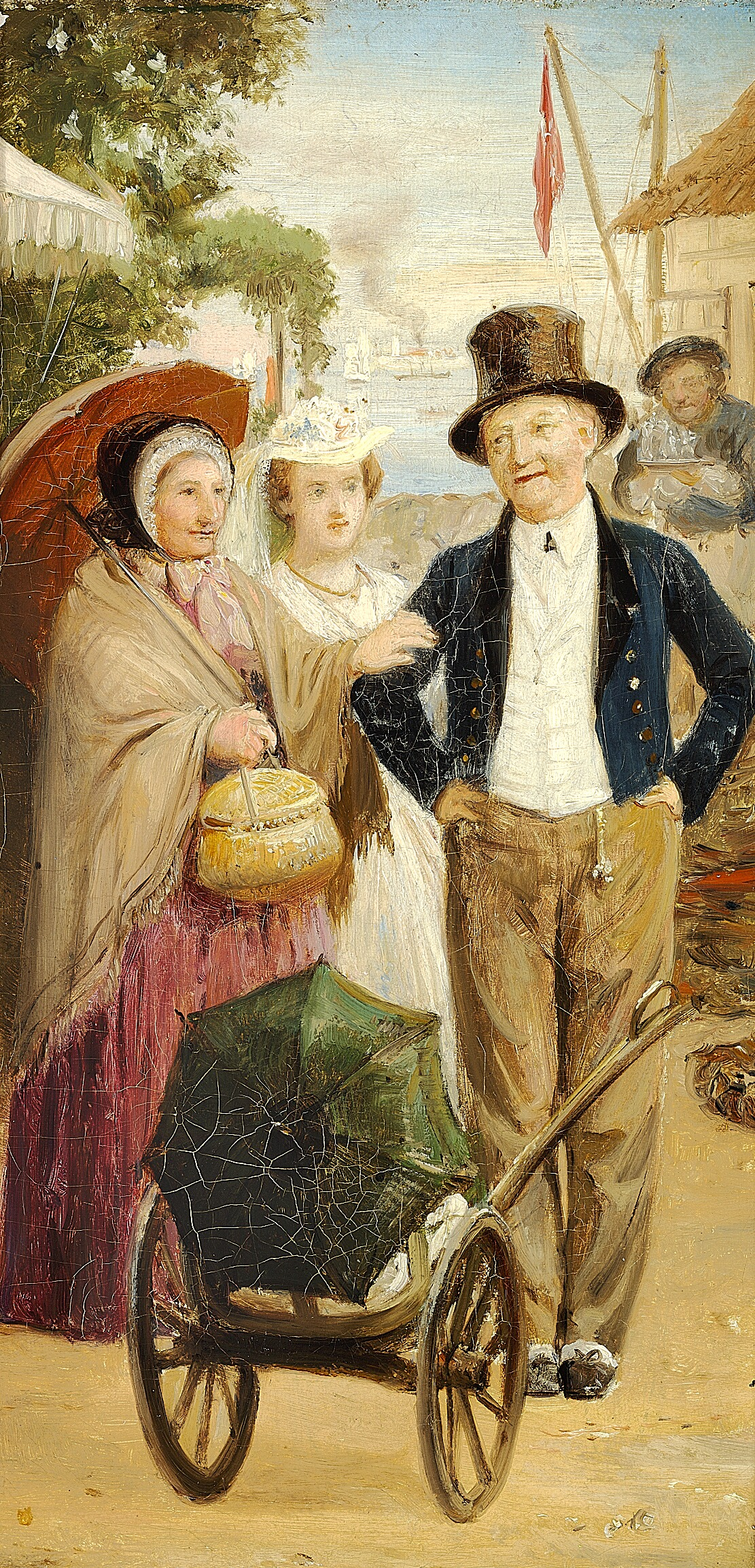 This is one of eight studies Bache made around 1872 as a proposed series of decorations for the foyer of the Royal Theatre in Copenhagen. The studies showed scenes from popular works played in the theatre. The proposal was not taken up. The lot comprised all of the eight studies.